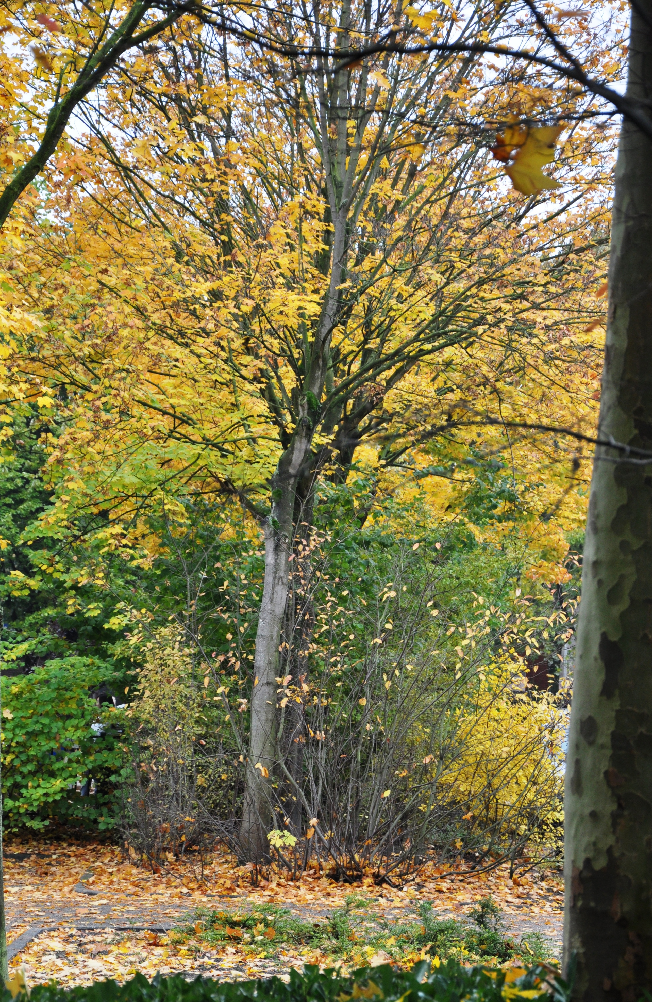 Autumn